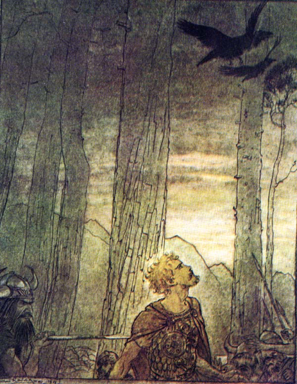 Siegfried's death